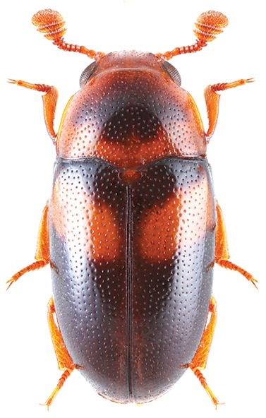 Habitus of Dacne (Dacne) picta in dorsal view.